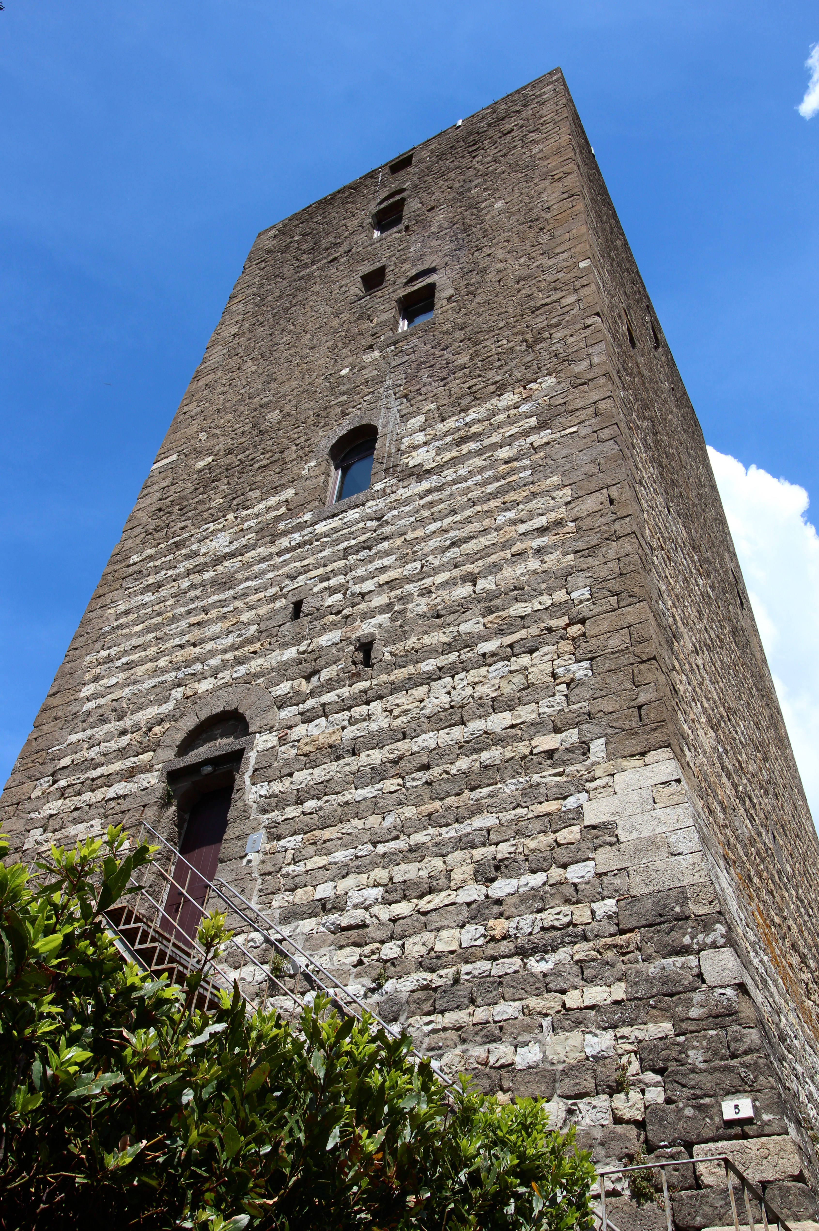 Defensive Tower Torre dei Belforti, Montecatini Val di Cecina, Province of Pisa, Tuscany, Italy